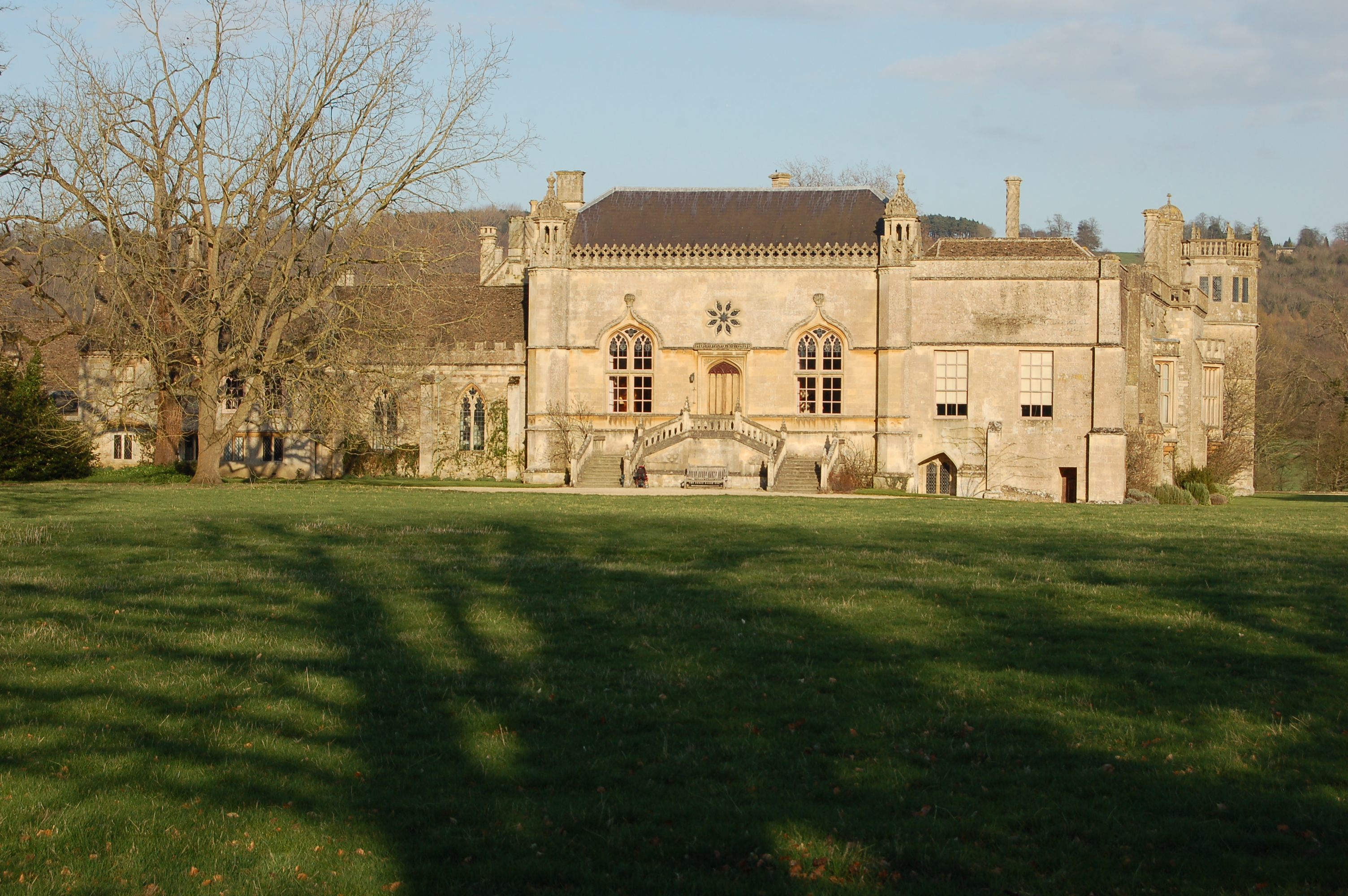 Lacock Abbey, Wiltshire, England, seen from the west